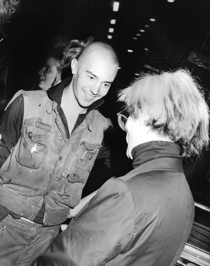 Joe Rush